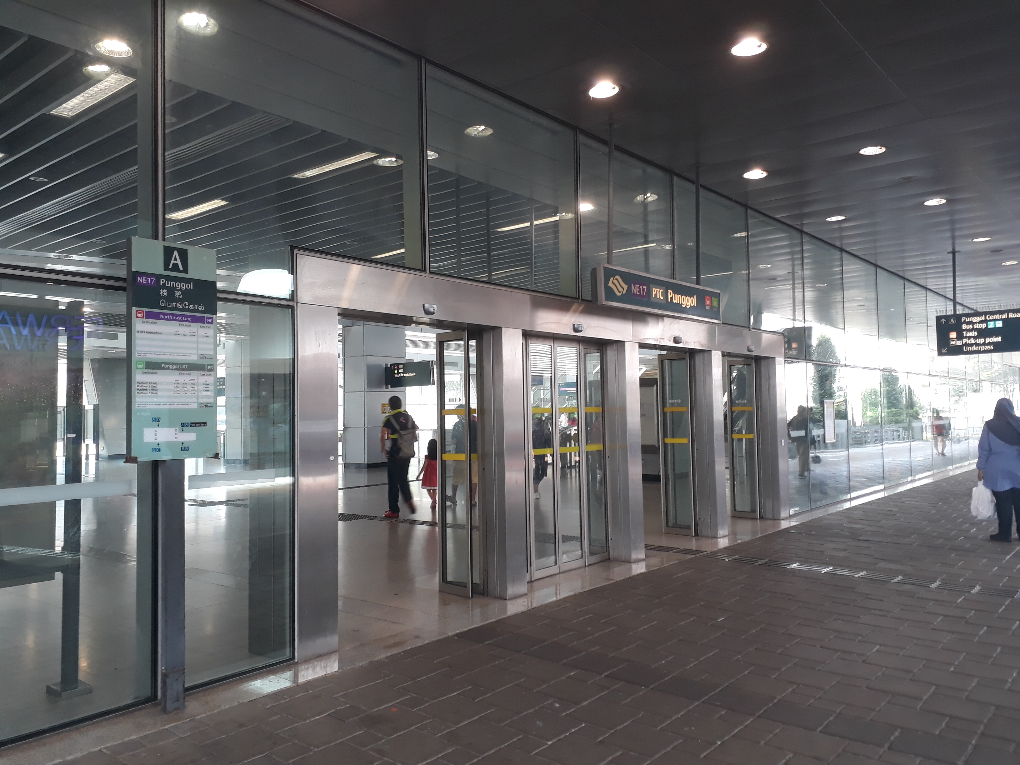 Exit A of Punggol station